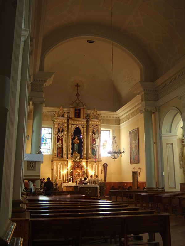 Leipalingis curch